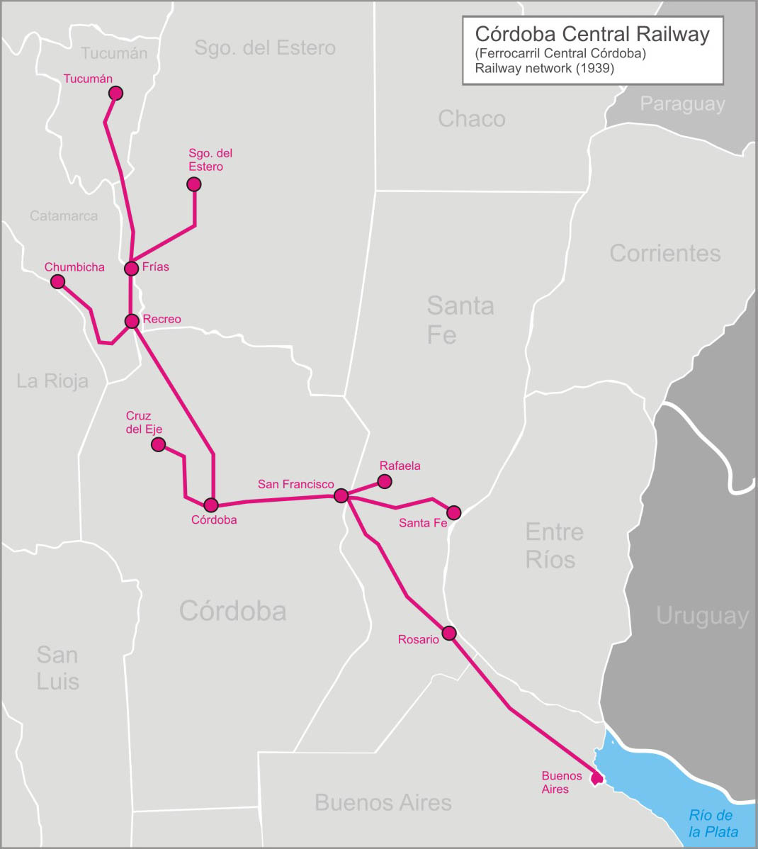 The Córdoba Central Railway network in 1939 before its nationalisation, merging to Argentine State Railway.